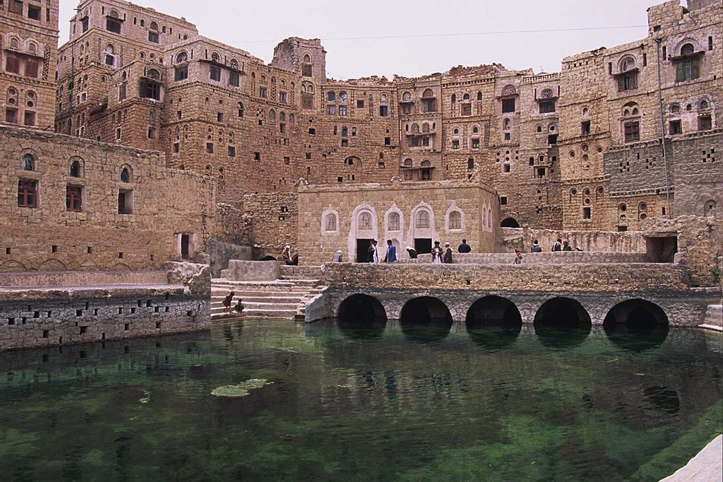 Hababa cistern — in Yemen.